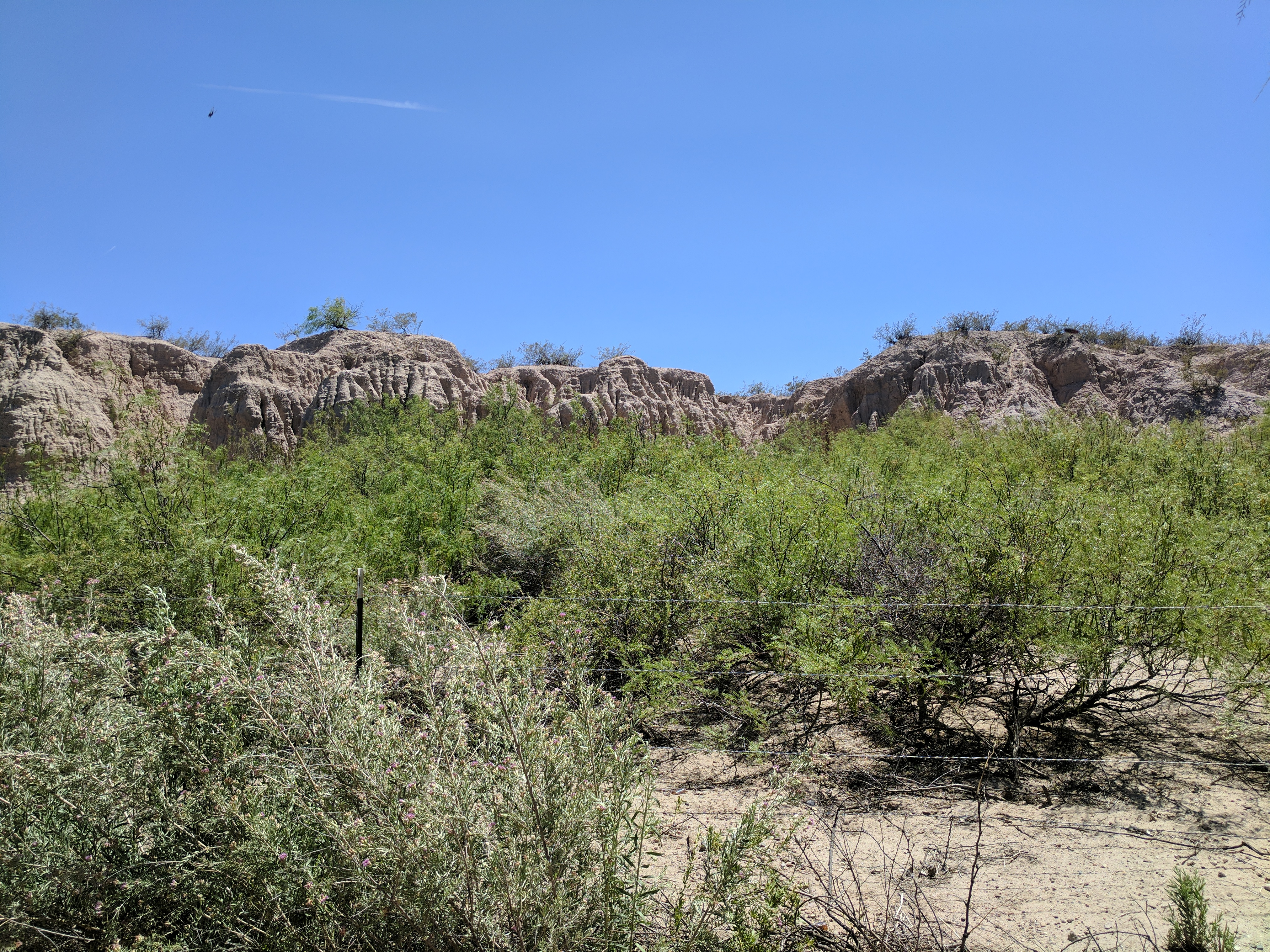 Mesilla Valley Bosque State Park on the trails.